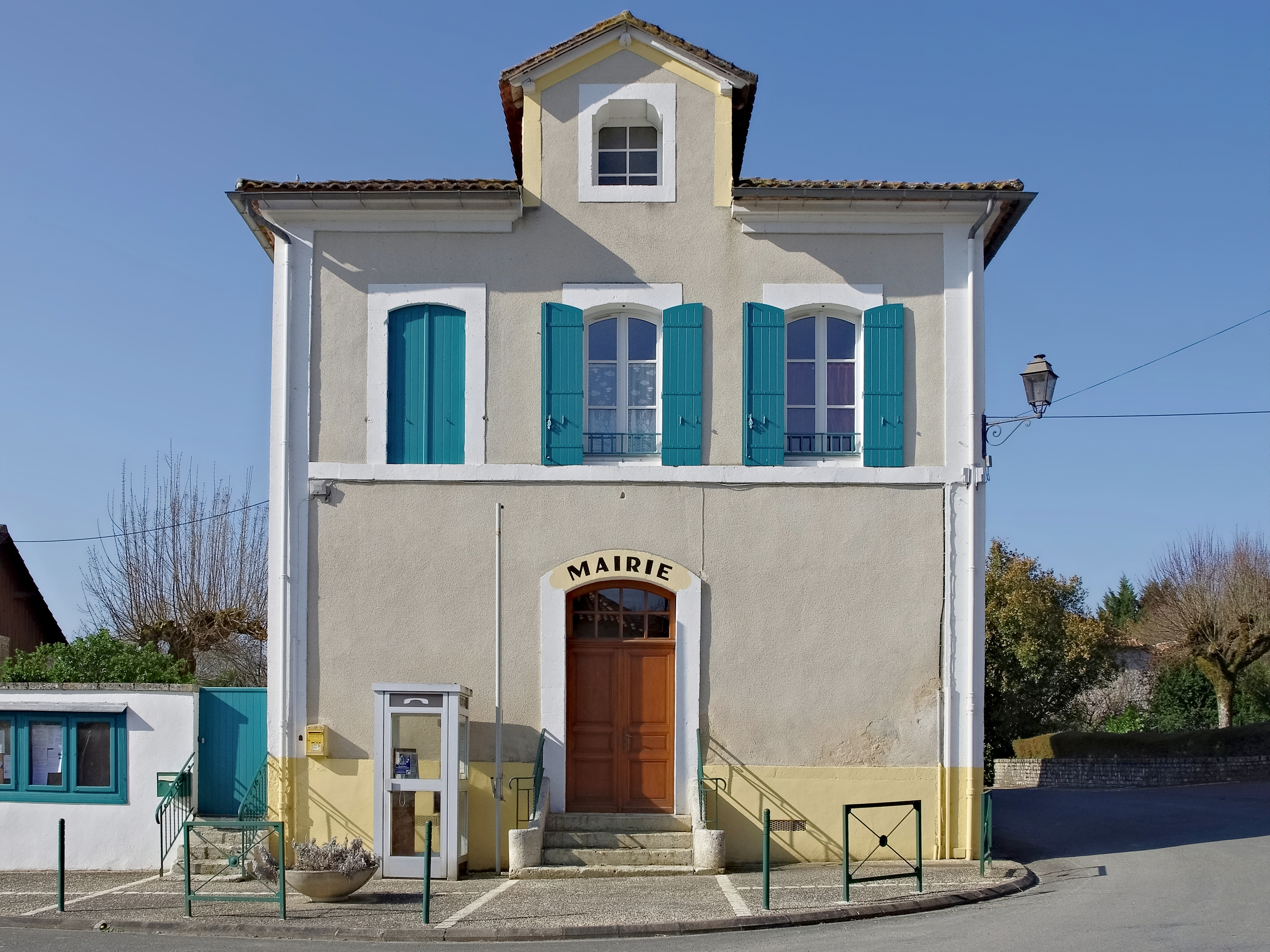 City hall of La Chapelle-Grésignac, Dordogne, France.